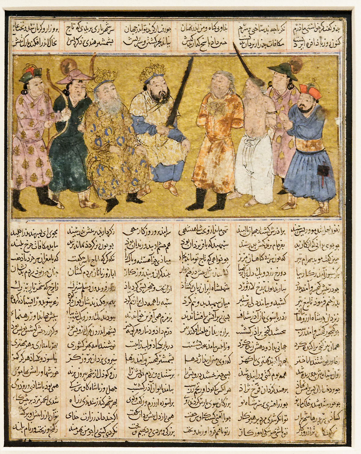 Kai Khusrau enthroned holding the sword with which he will execute Afrasiyab for the murder of Siyawush, folio from the Shahnameh (Book of Kings).